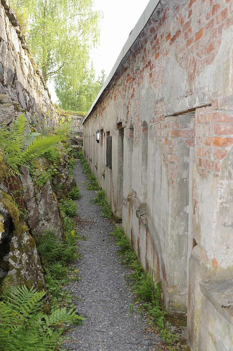 Barracks at Urksog Fort, in Aurskog-Høland kommune